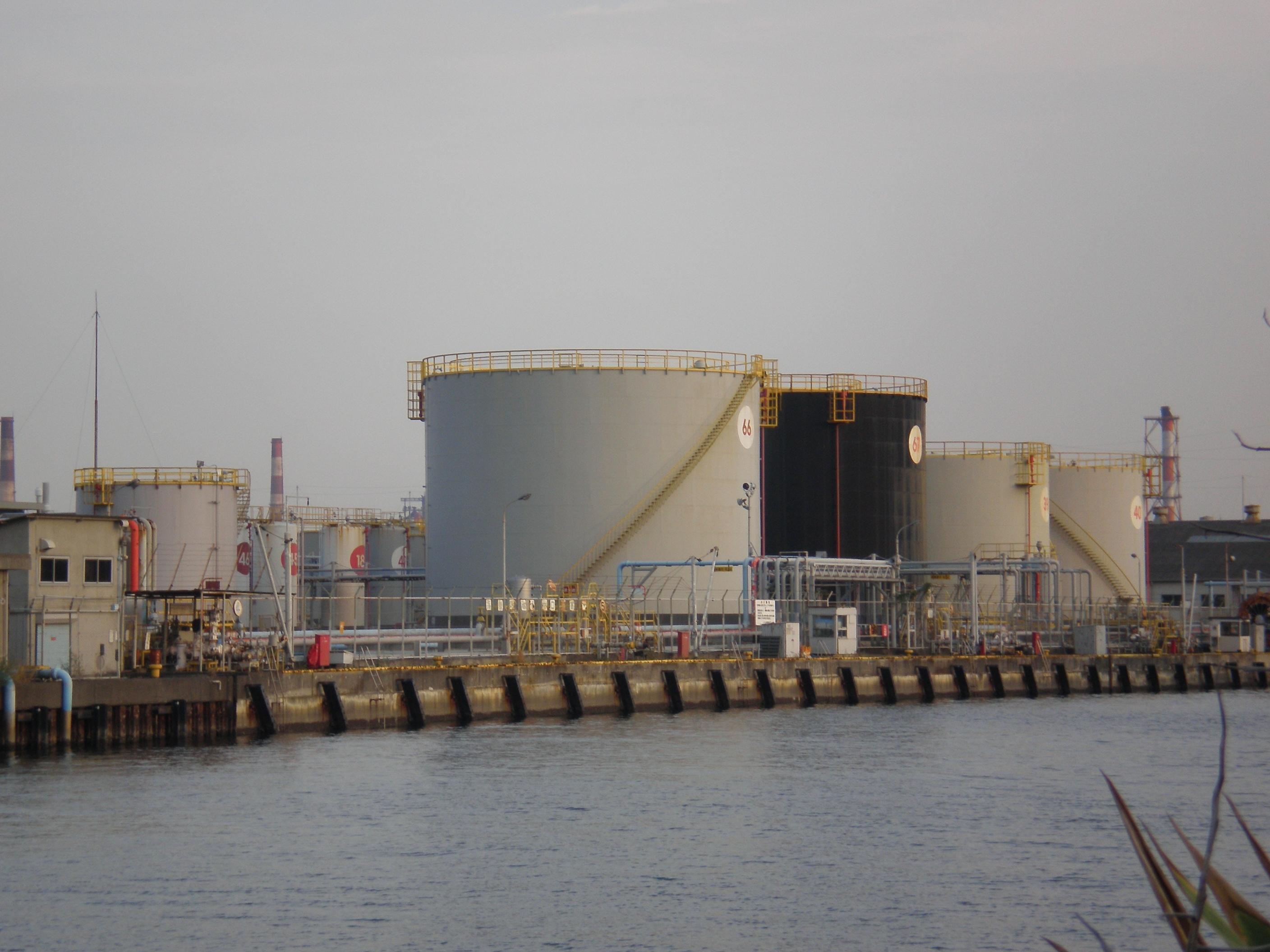 Petroleum Storage Tanks at Showa Shell Sekiyu Yokohama Plant.